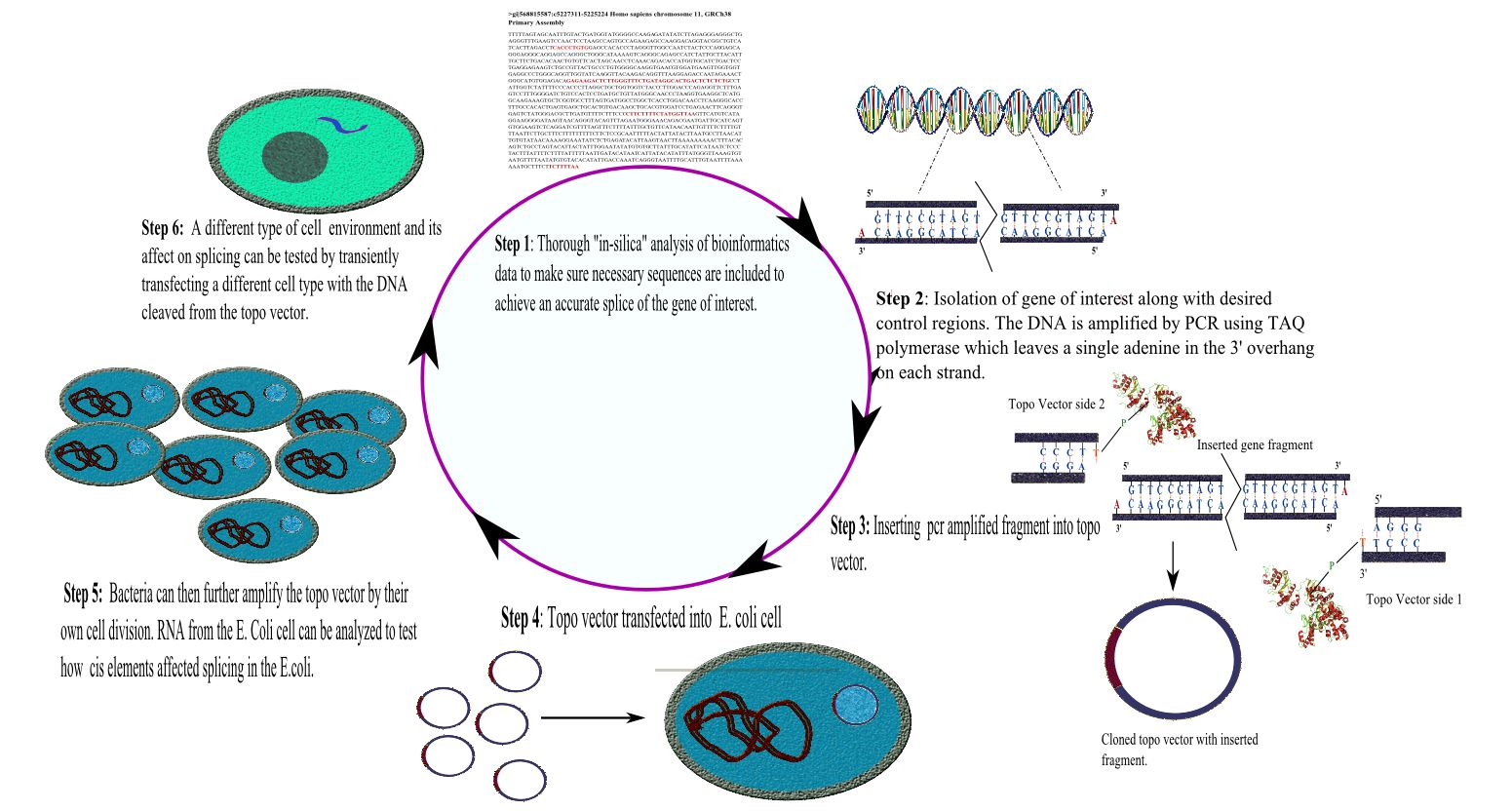 Minigene construcrtion